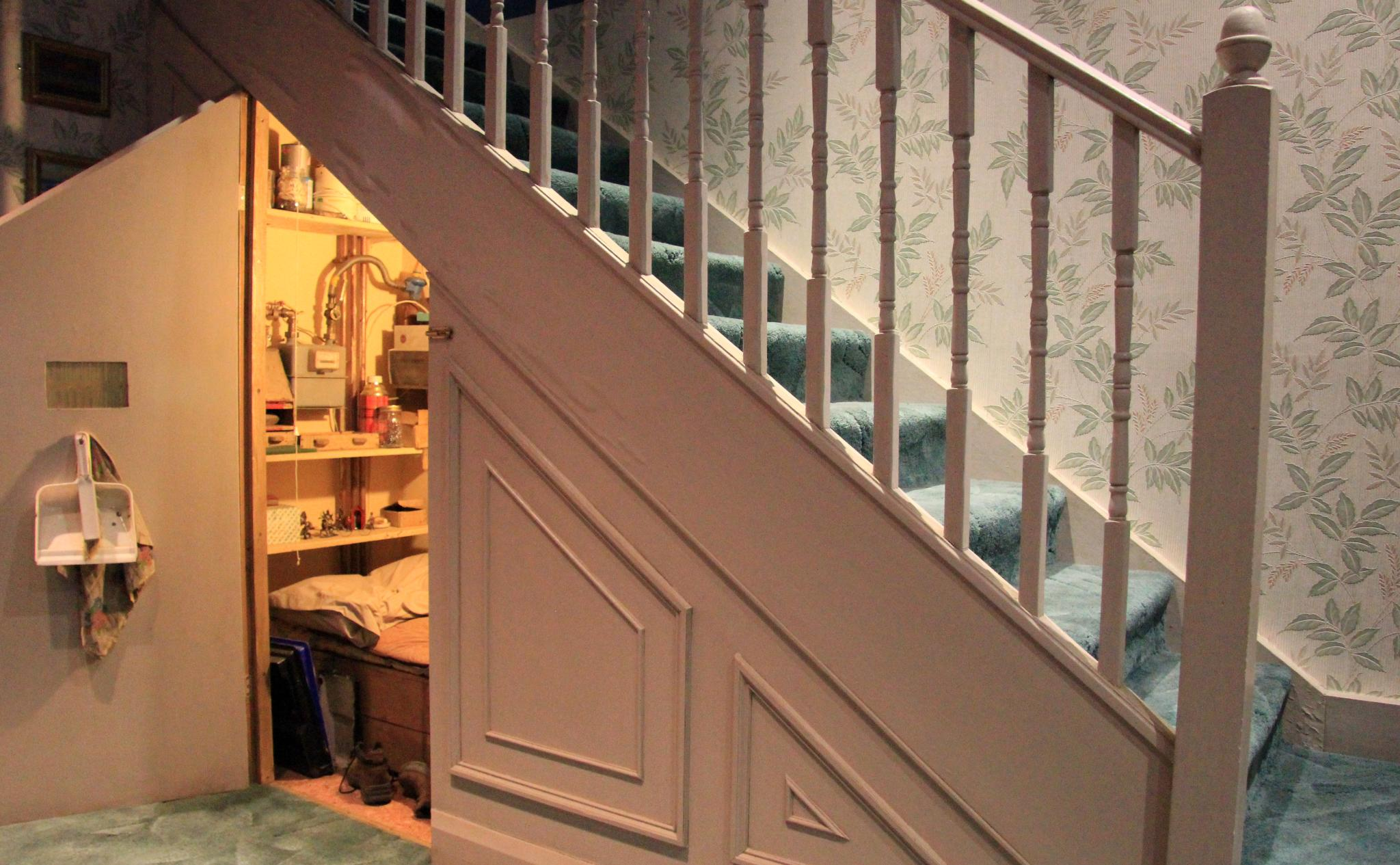 Warner Bros. Studio Tour London: The Making of Harry Potter.